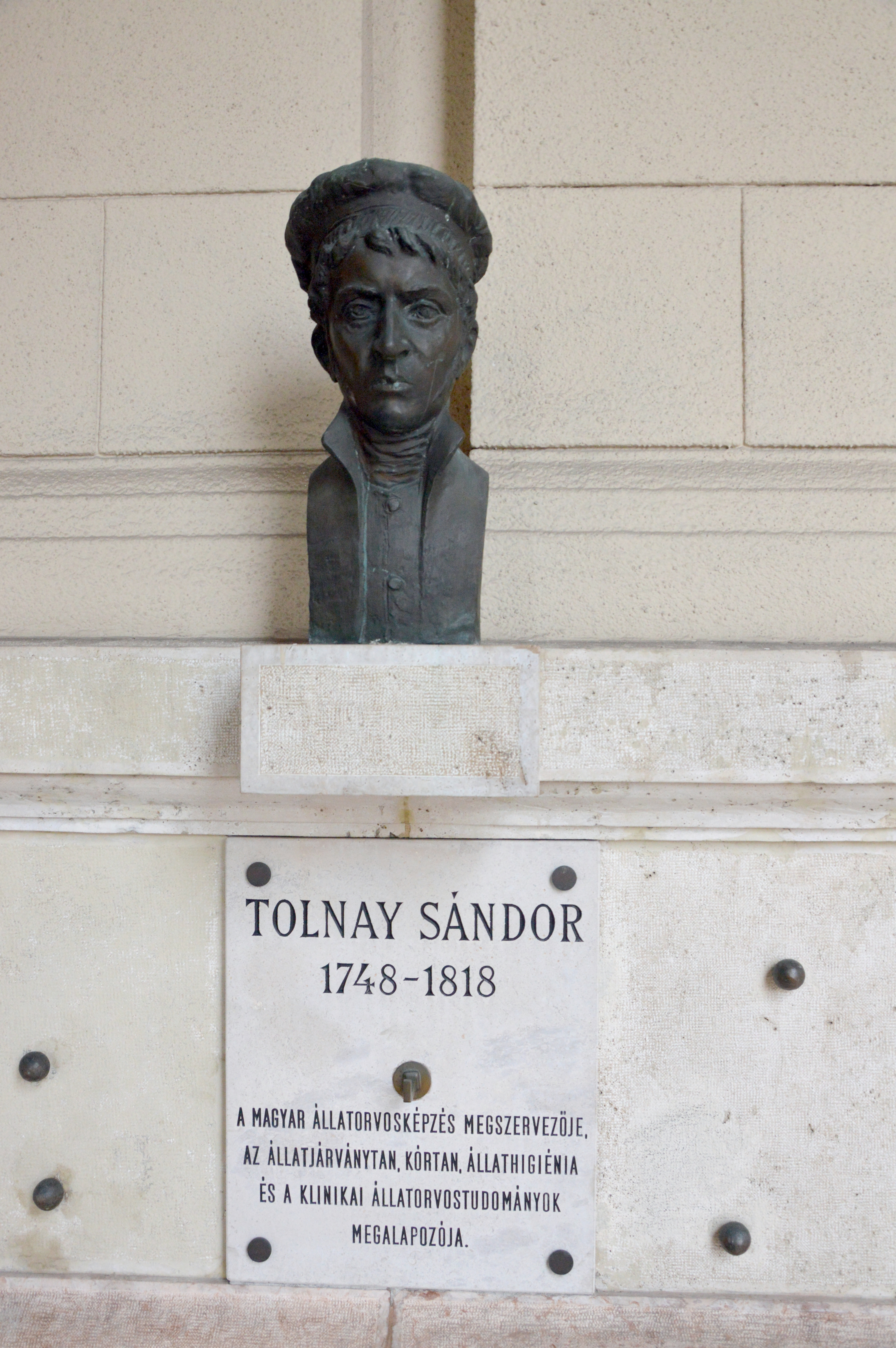 Bust of Sándor Tolnay in the arcade of the Hungarian Ministry of Agriculture in Kossuth Lajos tér, Budapest, Hungary.